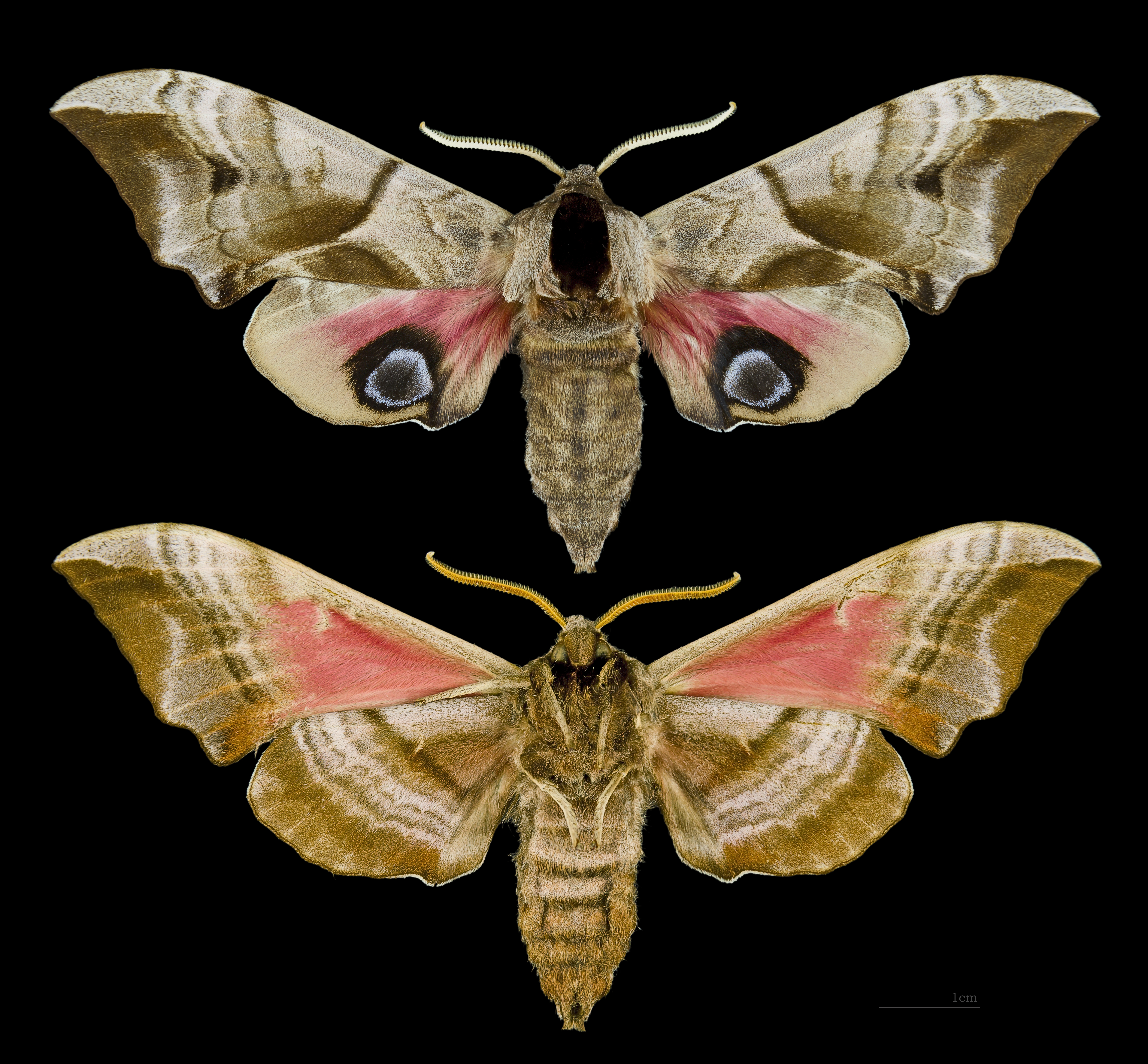 Eyed Hawk-Moth - Two views of same specimen